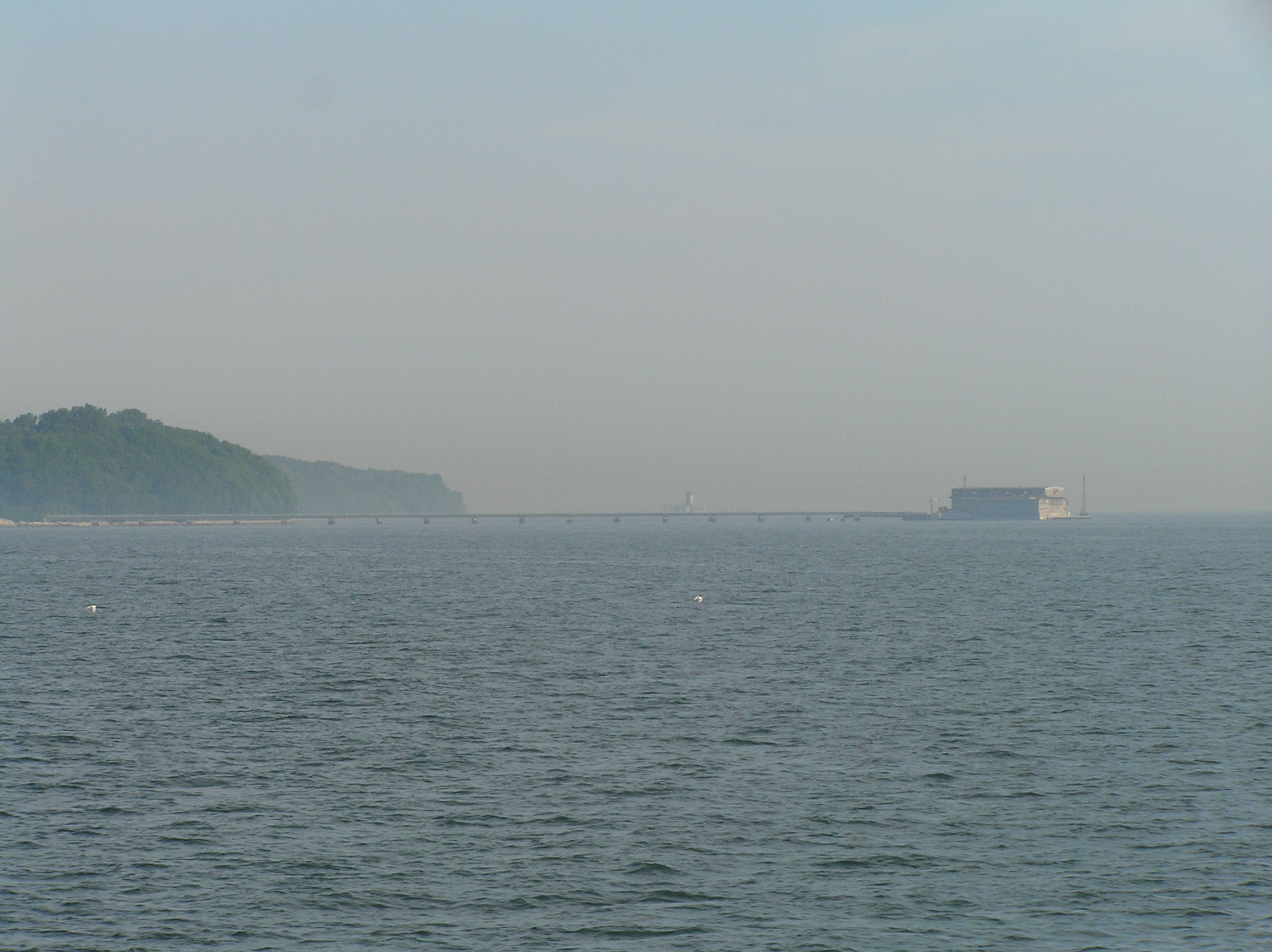 Torpedo test buildings in Gdynia